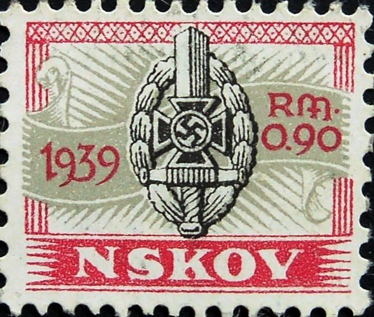 NSKOV Stamp